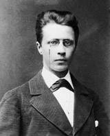 Werner Söderström